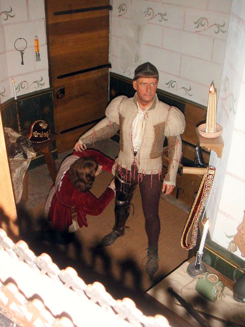 Diorama in Warwick Castle, depicting Richard Neville, 16th Earl of Warwick, (1428–71) as he prepares for the Battle of Barnet, 14 April 1471. This is part of "Kingmaker—A Preparation for Battle" exhibit set up since 1994: wax figures created by Madame Tussauds.[1]